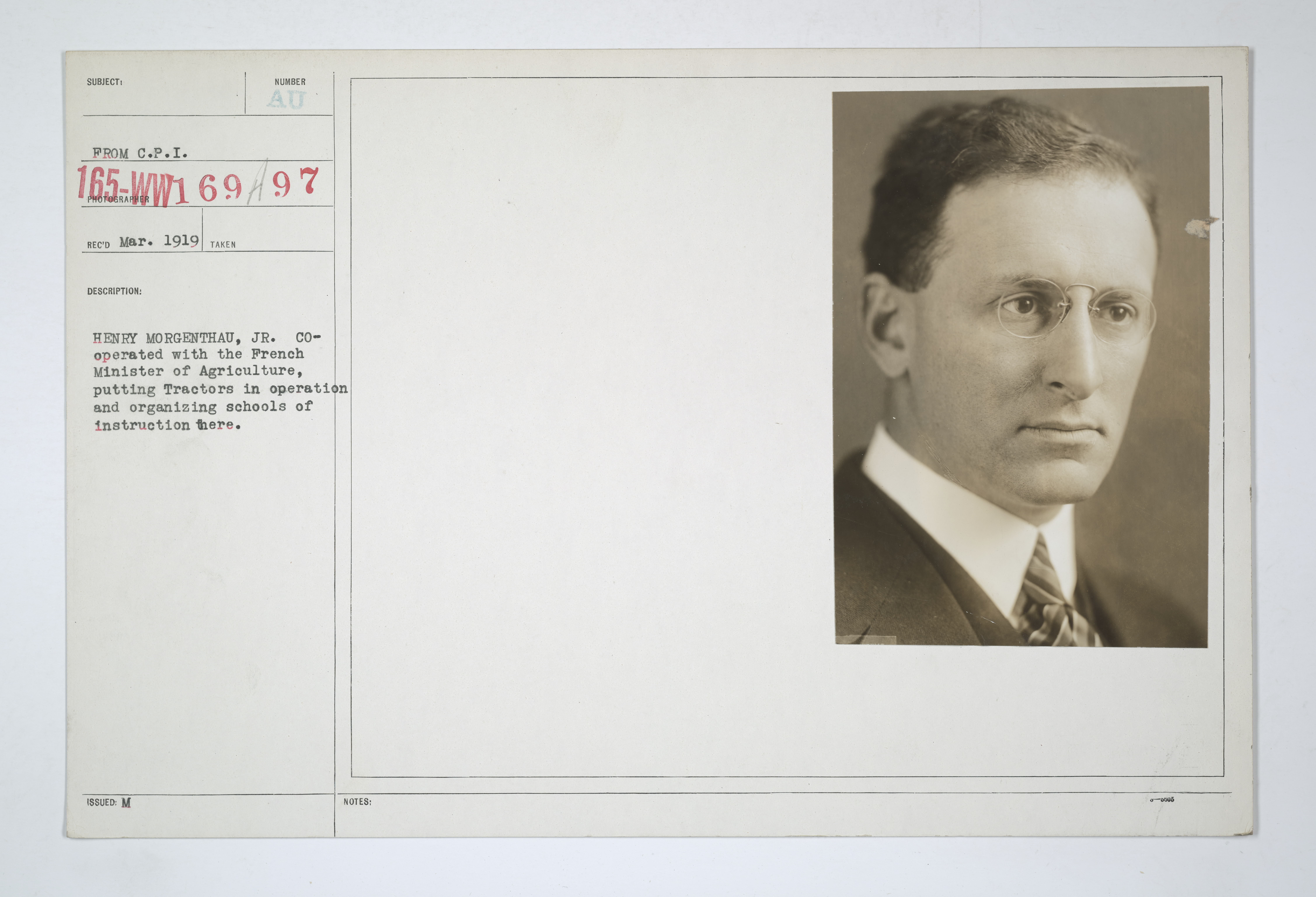 Scope and content: Photographer: C.P.I.